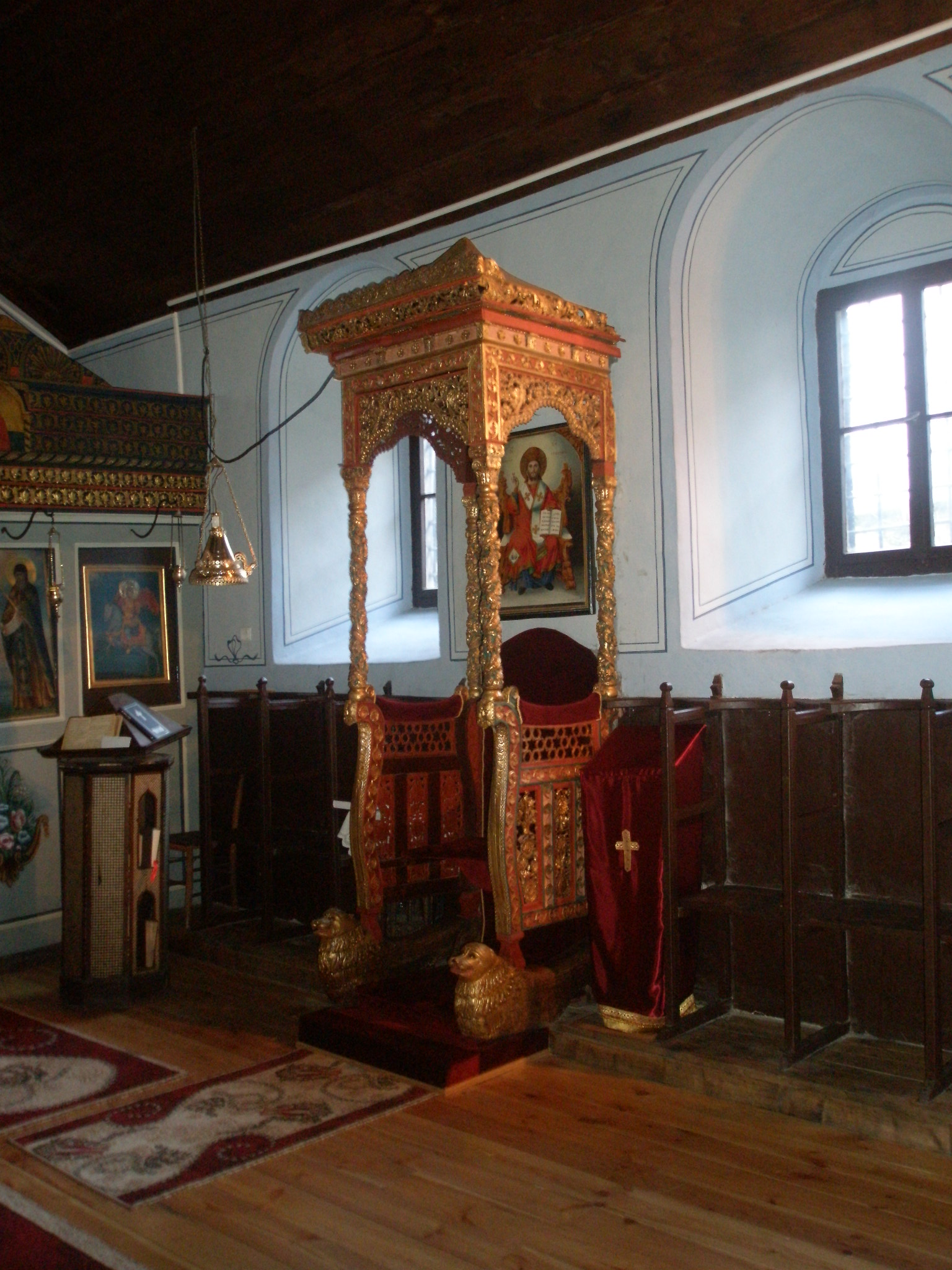 тронът